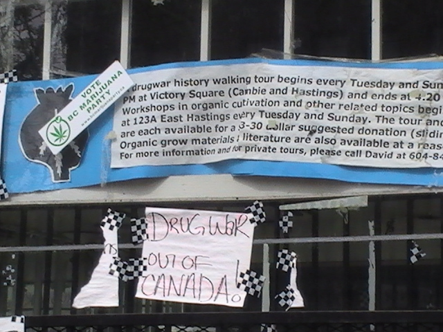 A sign posted on an abandoned building on East Hastings in Downtown Vancouver's crime ridden area.